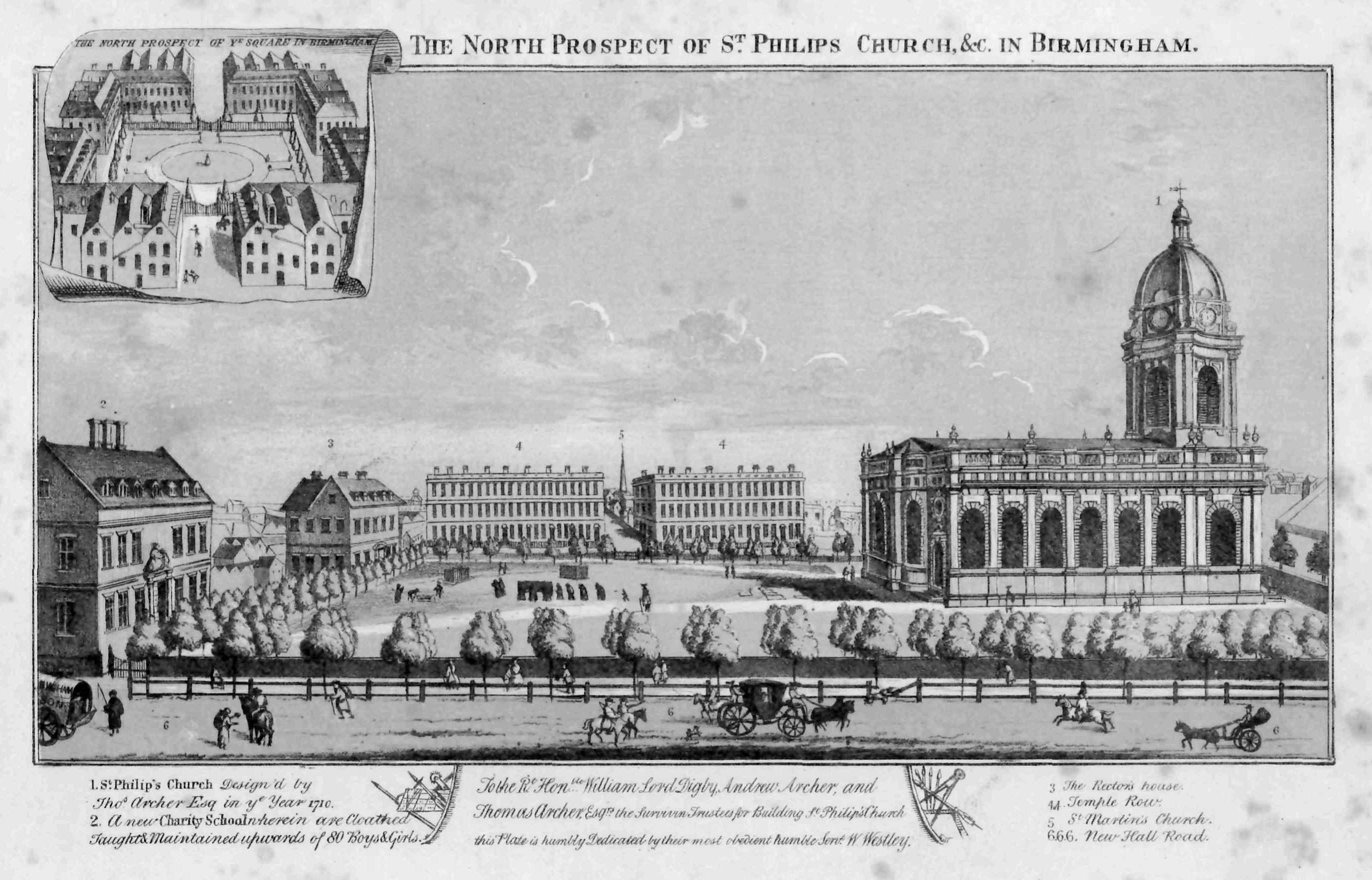 Engraving "The North Prospect of St Philip's Church.&c. in Birmingham" of 1732 by William Westley